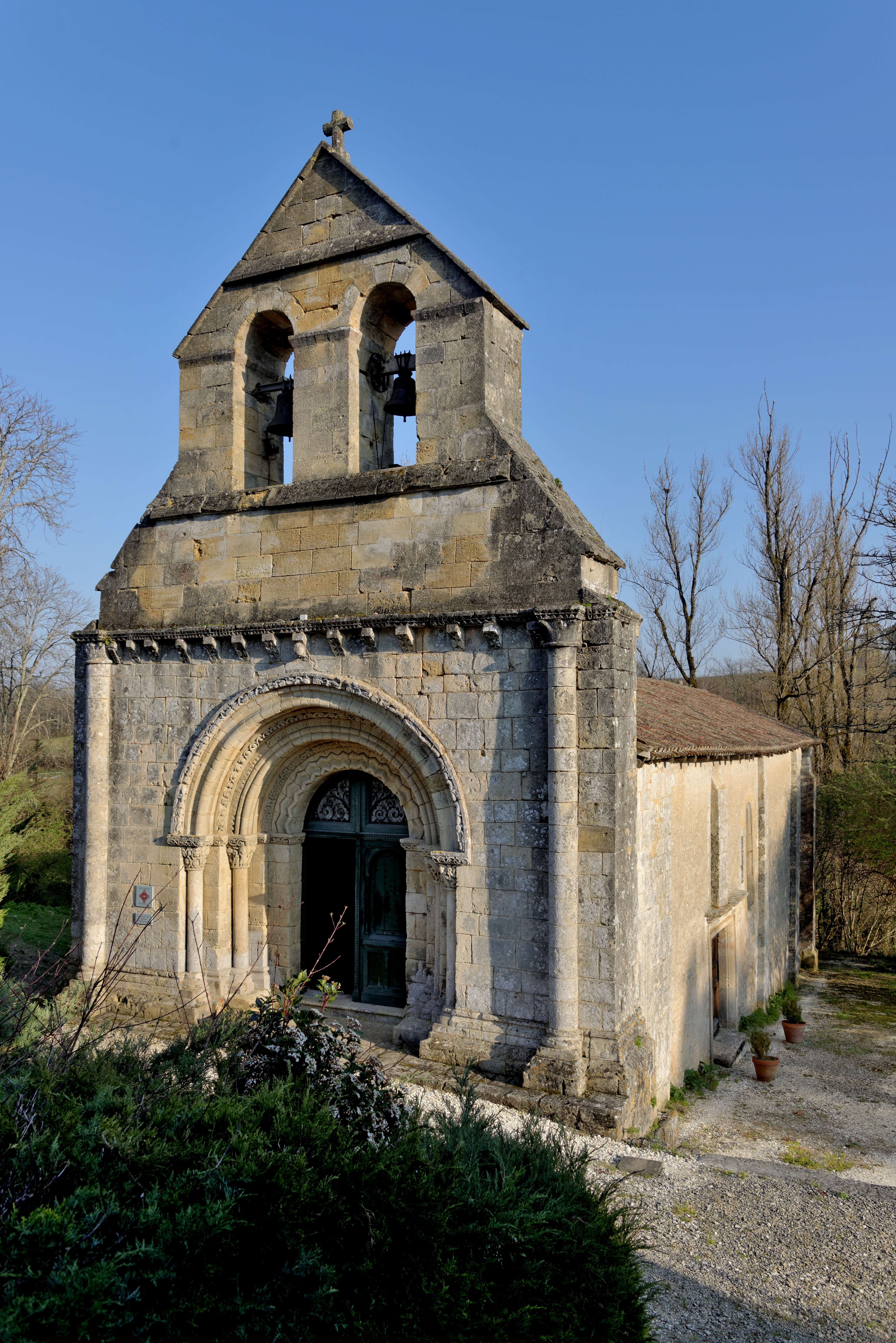 Saint-Genès church. Saint-Genès de Lombaud, Gironde, France